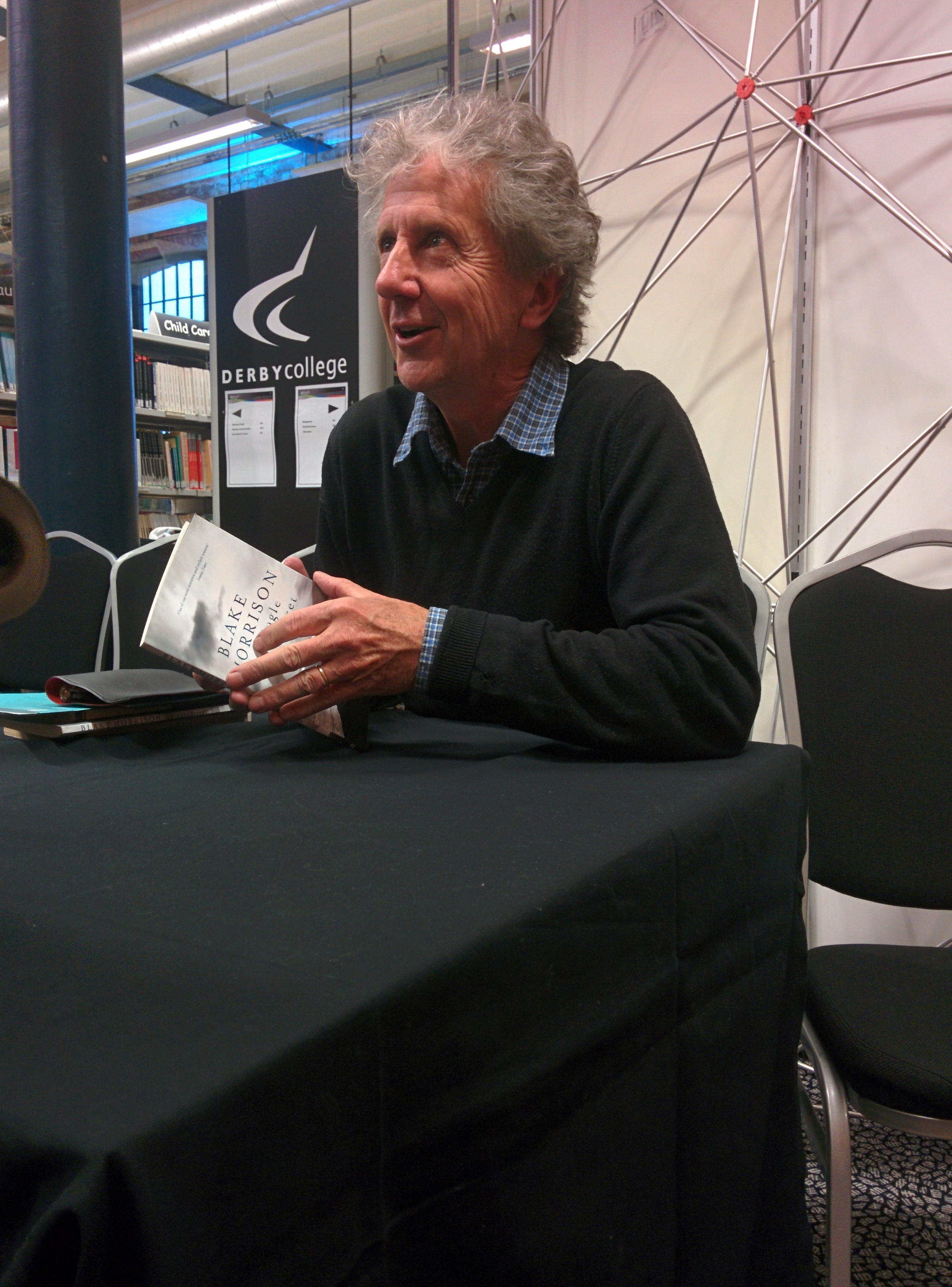 Derby Book Festival opening ceremony 1 June 2015 held near the Roundhouse in Derby